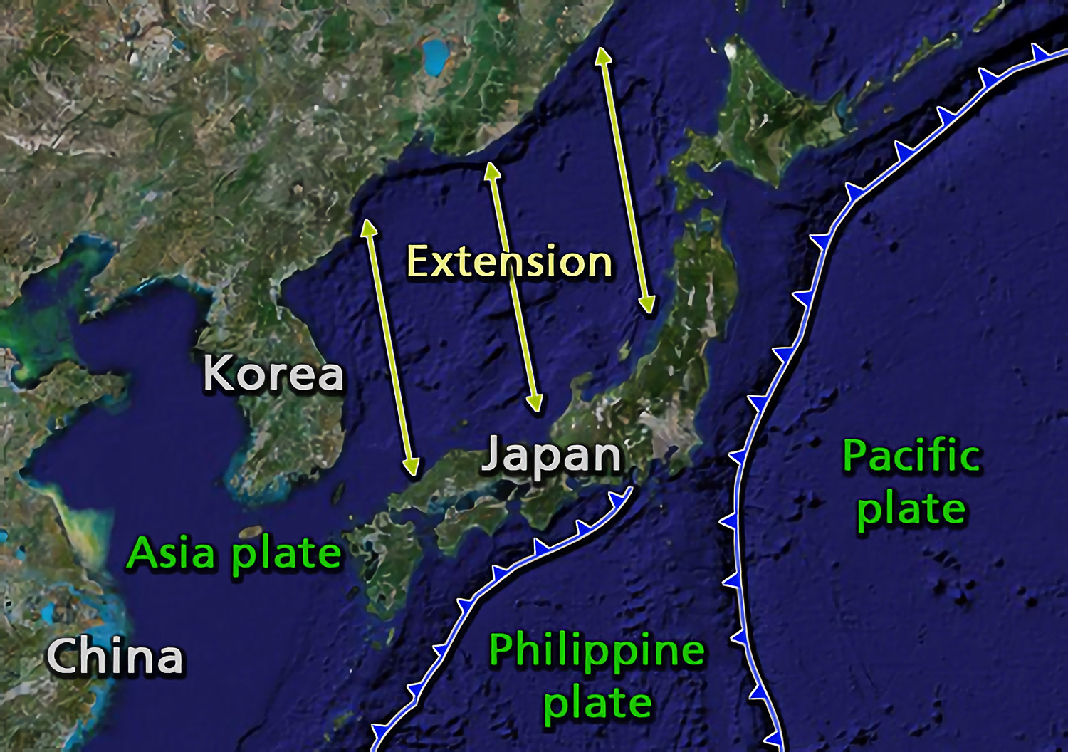 Separation of the island of Japan from mainland Asia by backarc spreading.